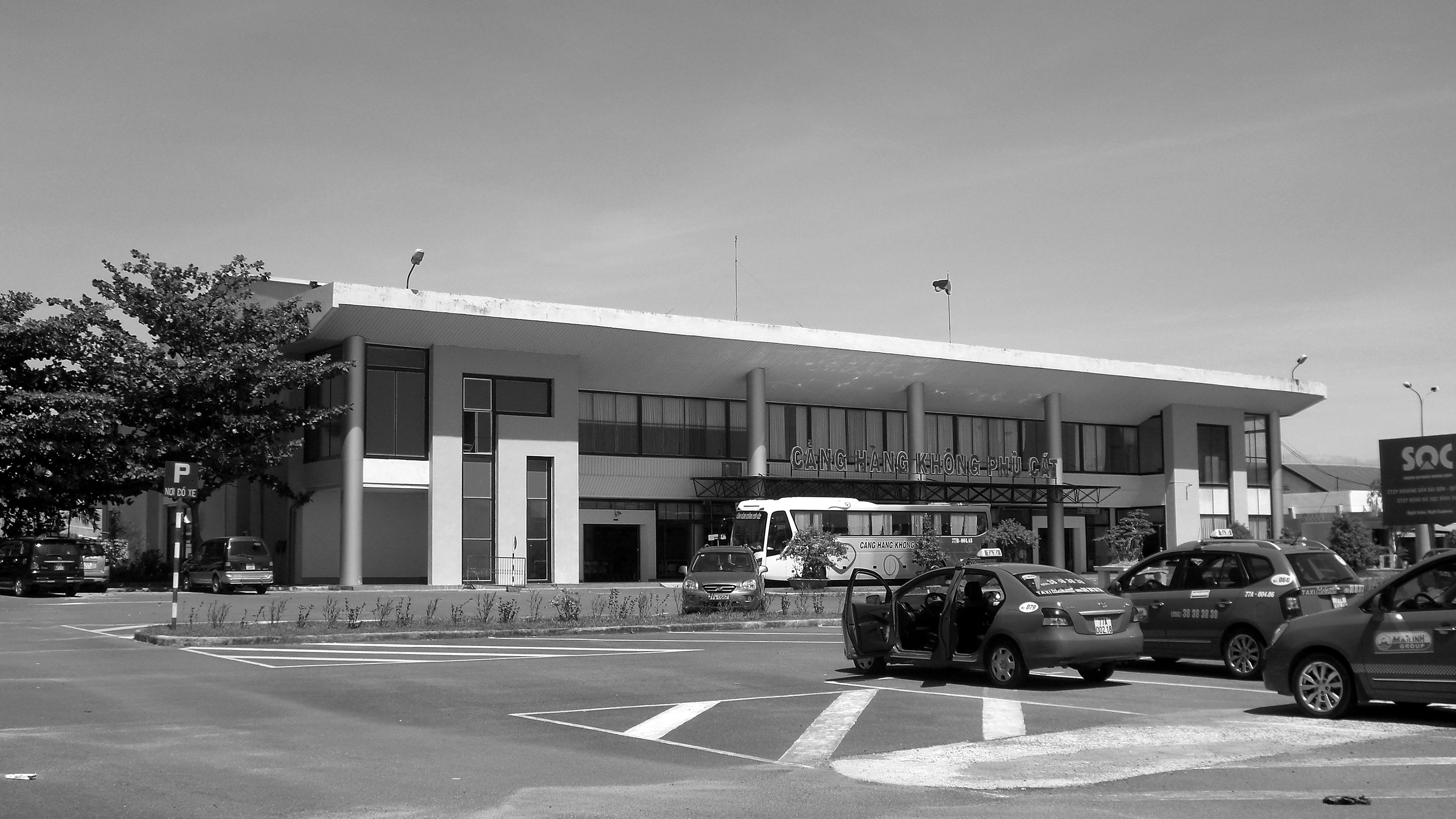 Phu Cat Airport 2012